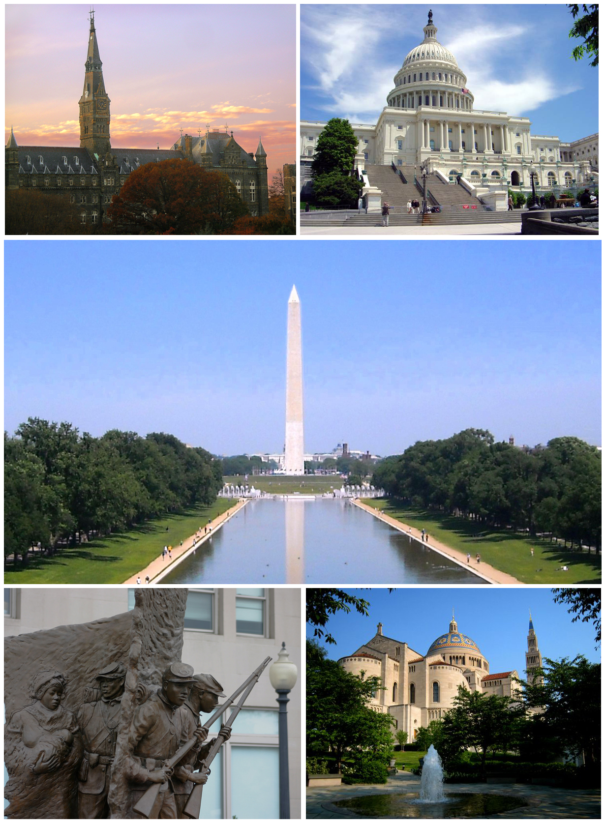 Montage of Washington, D.C. landmarks